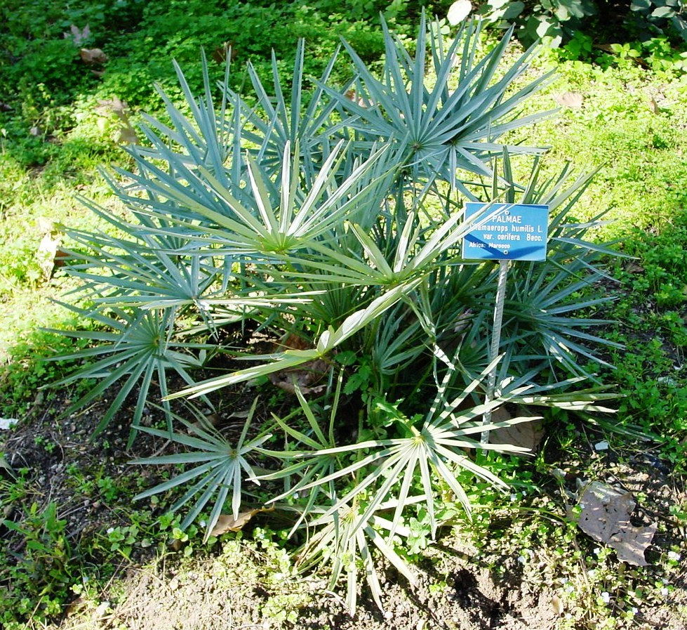 Chamaerops humilis var. argentea (syn. C. humilis var. cerifera) Orto botanico , Palermo - 2006